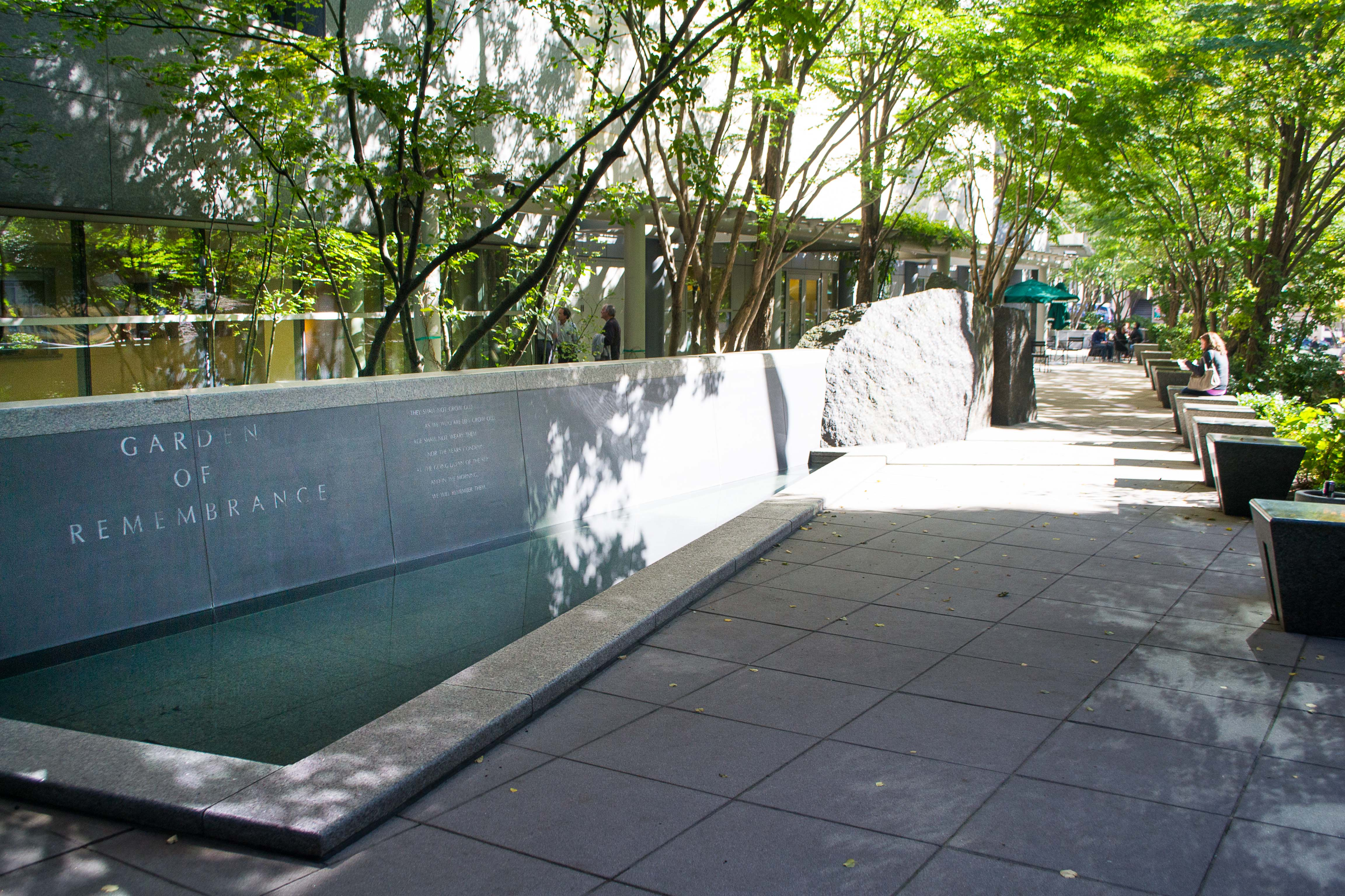 The Garden of Remembrance, near the University Street Link Station at Seattle's Benaroya Hall